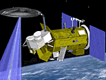 picture